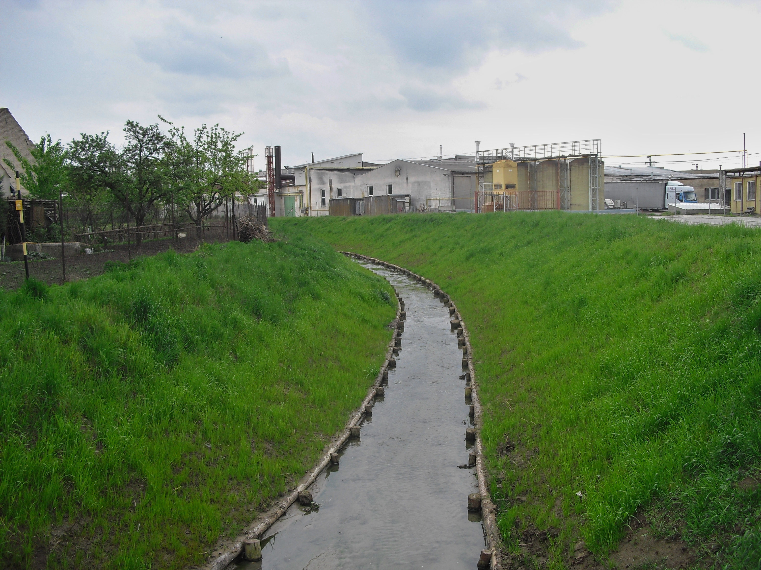 Bzenec, Hodonín District, Czech Republic.